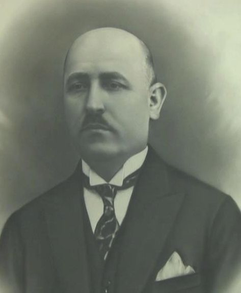 Photo of Jovan Janković Lunga, ktitor